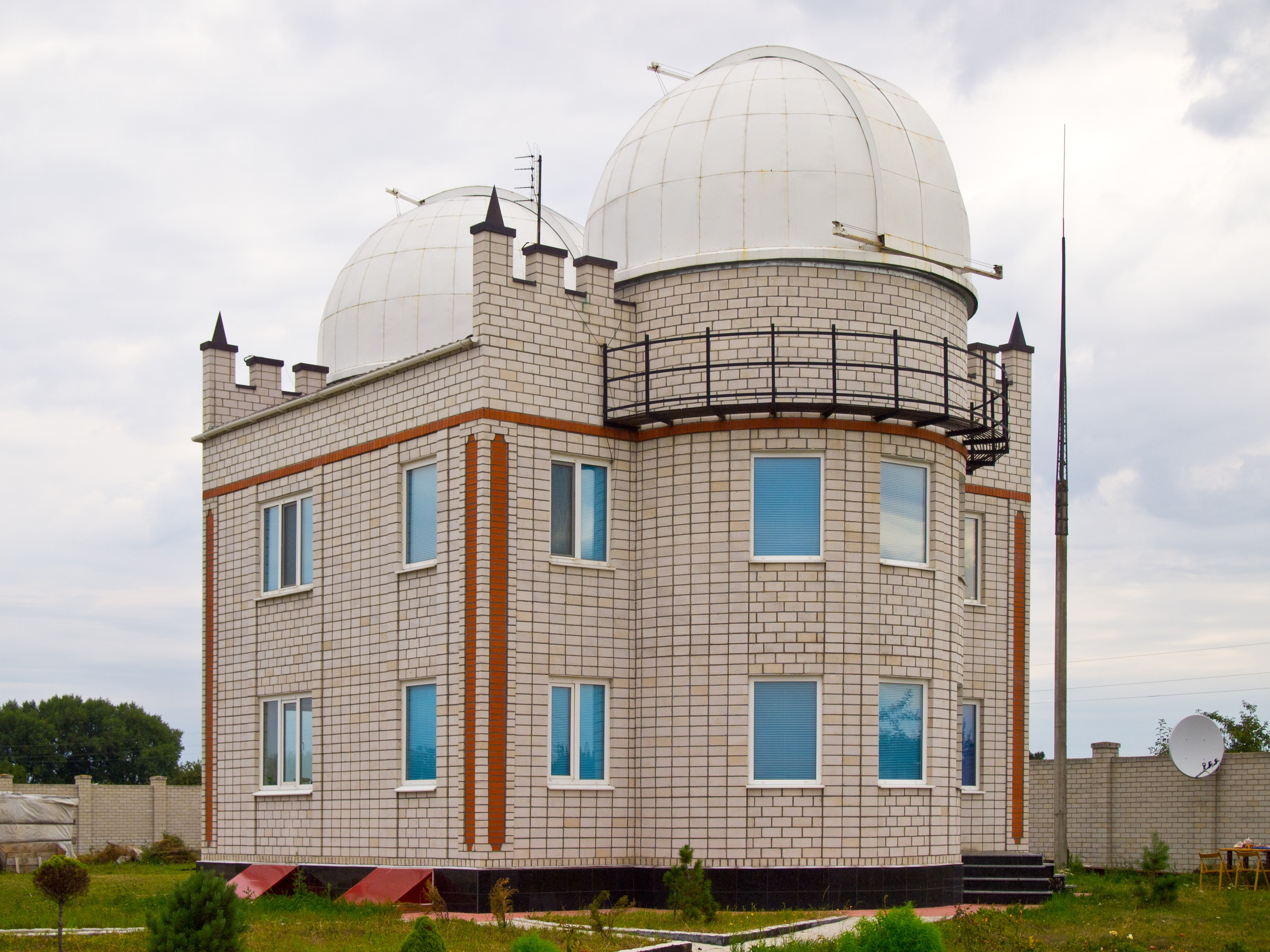 Andrushivka Astronomical Observatory, the second "East Eye" pavilion